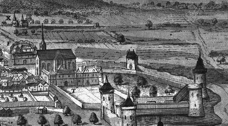 St George's Abbey, Rennes in 1644